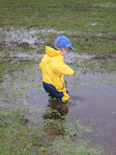 Child enjoys a puddle in Vancouver, B.C., Canada.